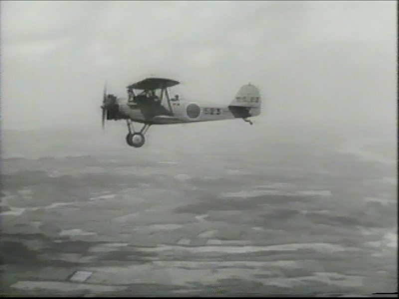 Yokosuka K5Y from "Hawai Mare oki kaisen (The War at Sea from Hawaii to Malay)".